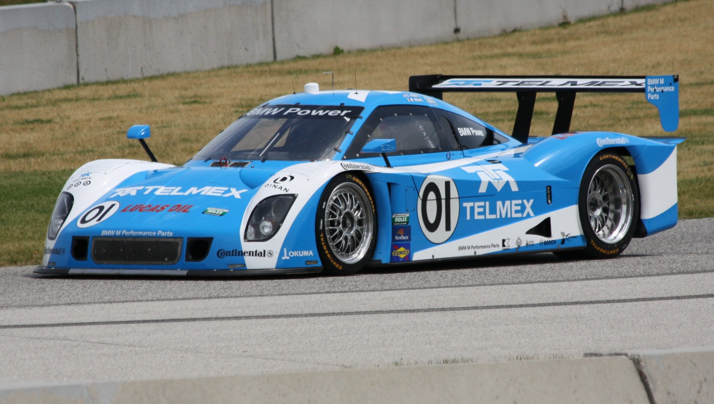 The Chip Ganassi Racing Daytona Prototype driven by Scott Pruett and Memo Rojas at a 2012 race at Road America. The car, a BMW Riley won the race.